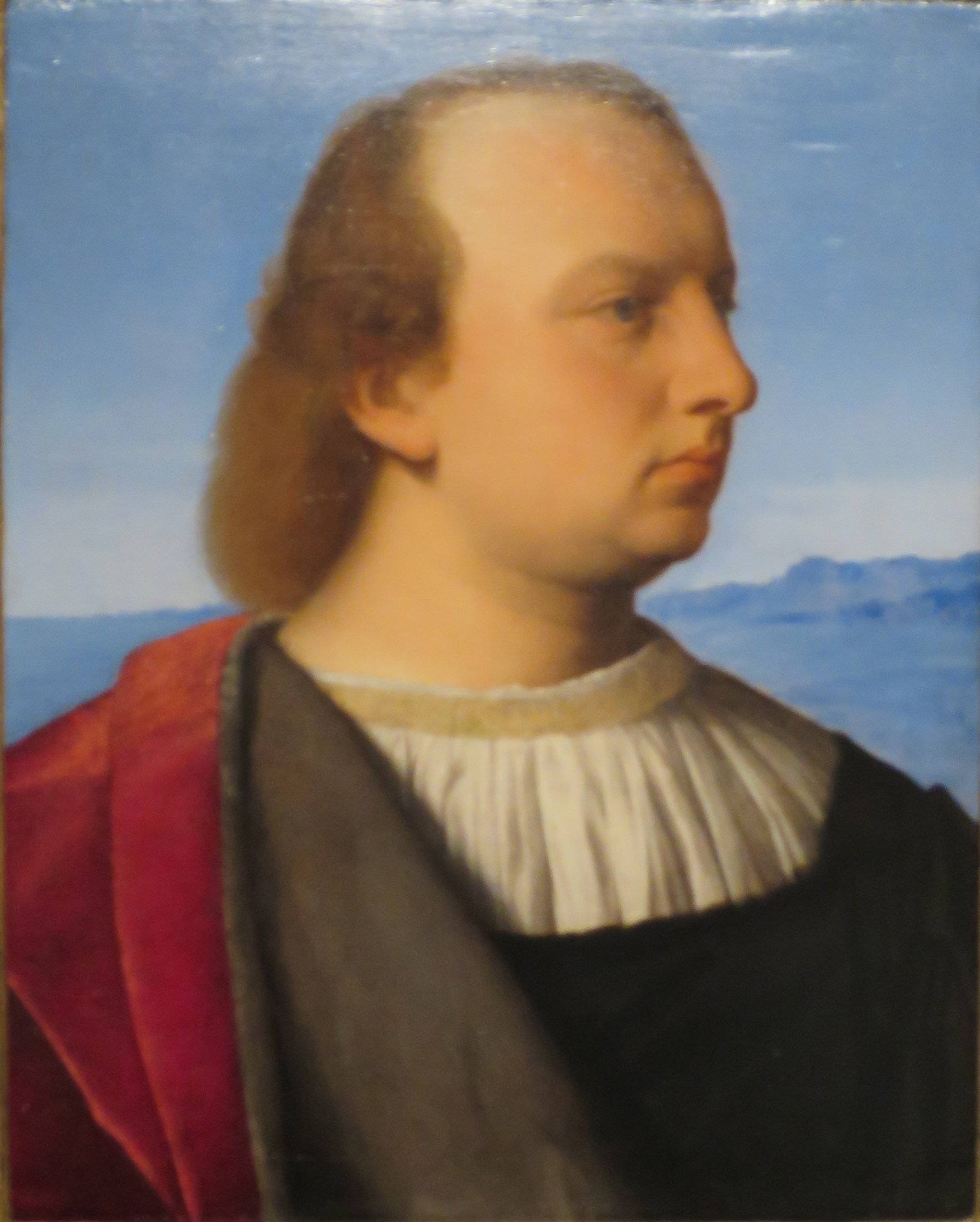 Portrait of Giambattista Memmo by Vincenzo di Biagio Catena, c. 1510, tempera on wood, Lowe Art Museum